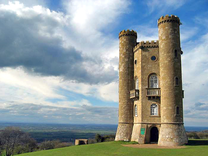 Broadway Tower, The Cotswolds, a folly designed by James Wyatt and built for Lady Coventry in 1799. (Edited, compare to original.)